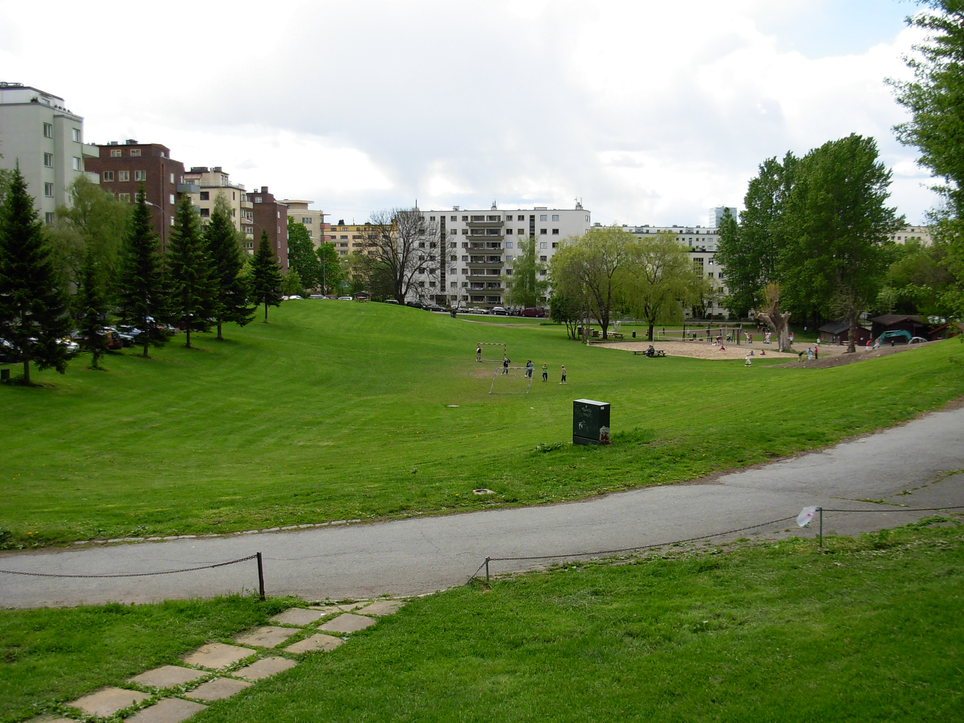 Marienlystparken, neighbourhood Marienlyst, Oslo, with turvei (park trail) no. B9